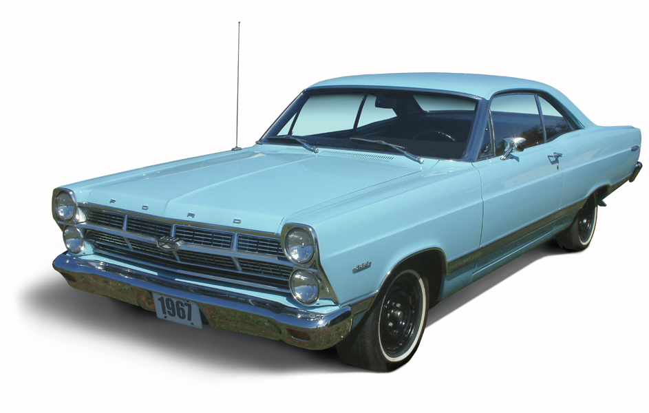 1967 Ford Fairlane 2-door hardtop coupe with 289cid V-8 and automatic C4 transmision, taken on September 07, 2006 in Barrie, Ontario, Canada by Bill Wrigley.